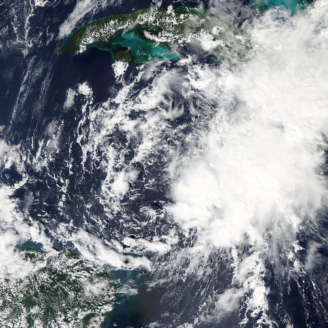 MODIS Terra true-color satellite image of Tropical Depression Nineteen south of Grand Cayman, shortly before being classified.